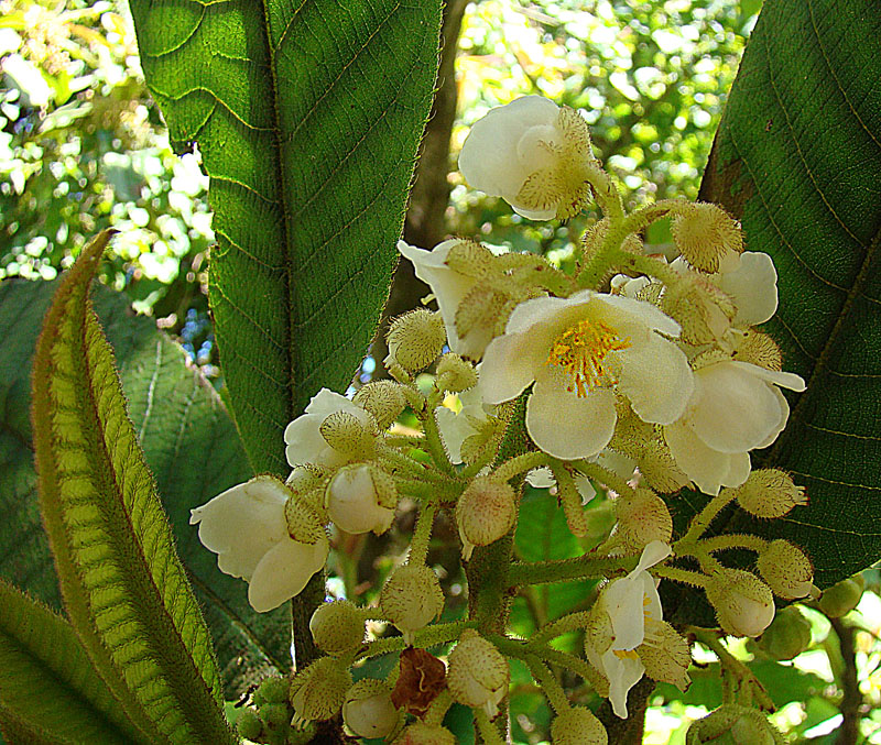 Native to southern Mexico. Photo from San Francisco Botanical Gardens. In context at